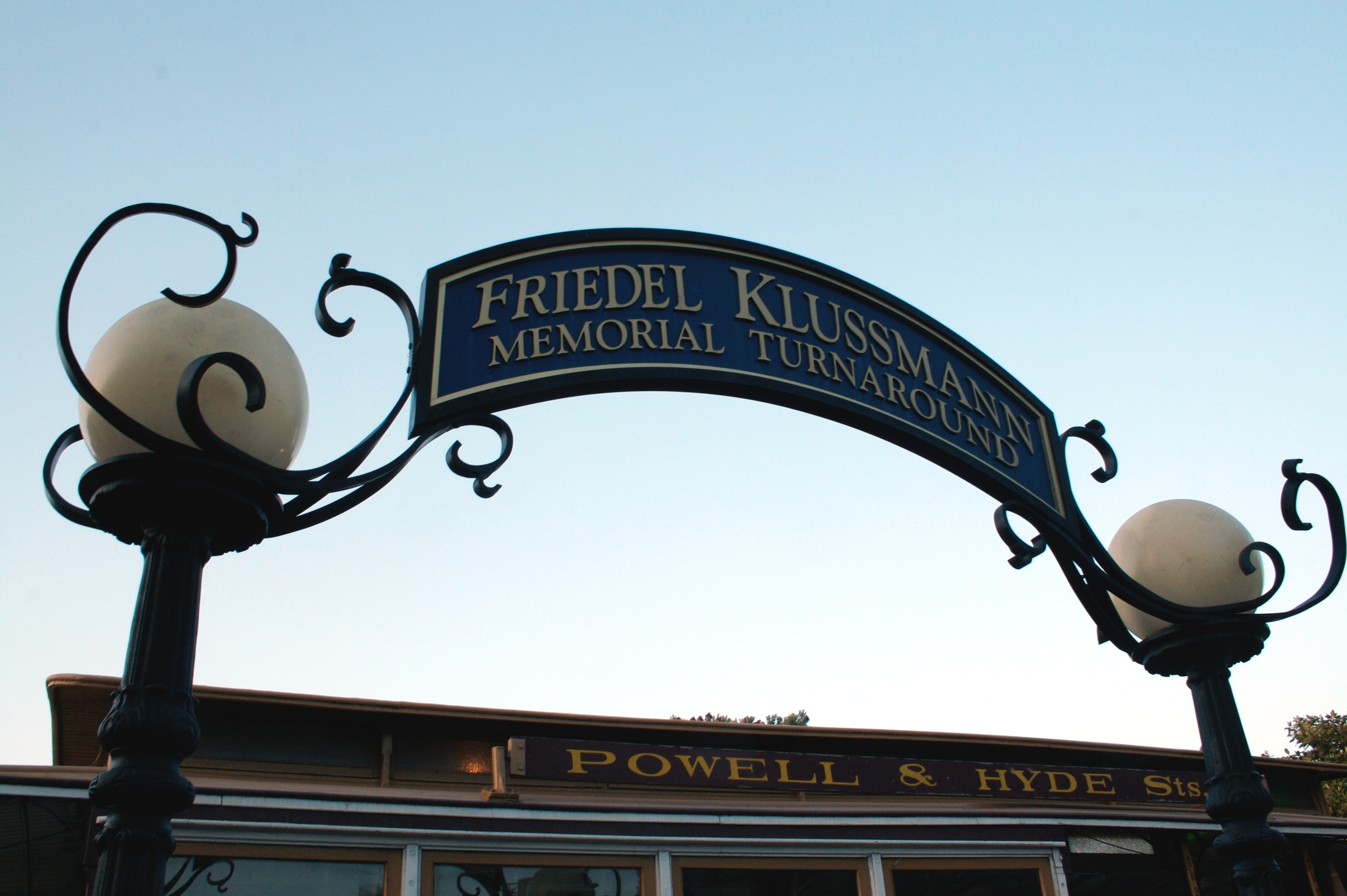 The Friedel Klussmann Memorial Turnaround is the cable car stop near Fisherman's Wharf, where we picked up the number 23 cable car back to Union Square. Wikipedia has the following to say about Mrs. Klussmann: "In 1947, Mayor of San Francisco Roger Lapham proposed the closure of the two Powell Street cable car lines, which were owned by the city as part of the San Francisco Municipal Railway. In response a joint meeting of 27 women's civic groups, led by Friedel Klussmann, formed the Citizens' Committee to Save the Cable Cars."